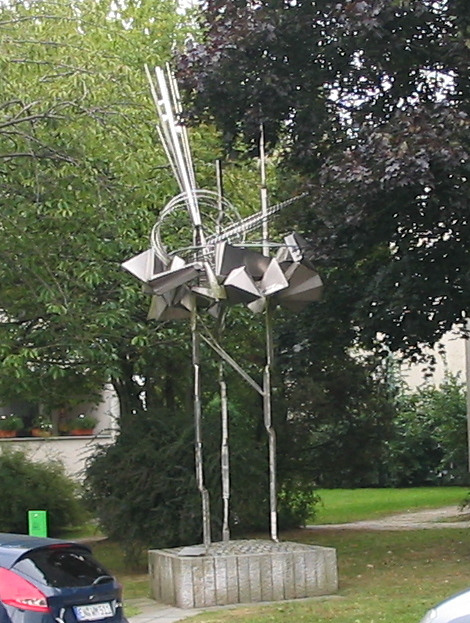 Steel sculpture by K. T. Neumann in Witten, Germany